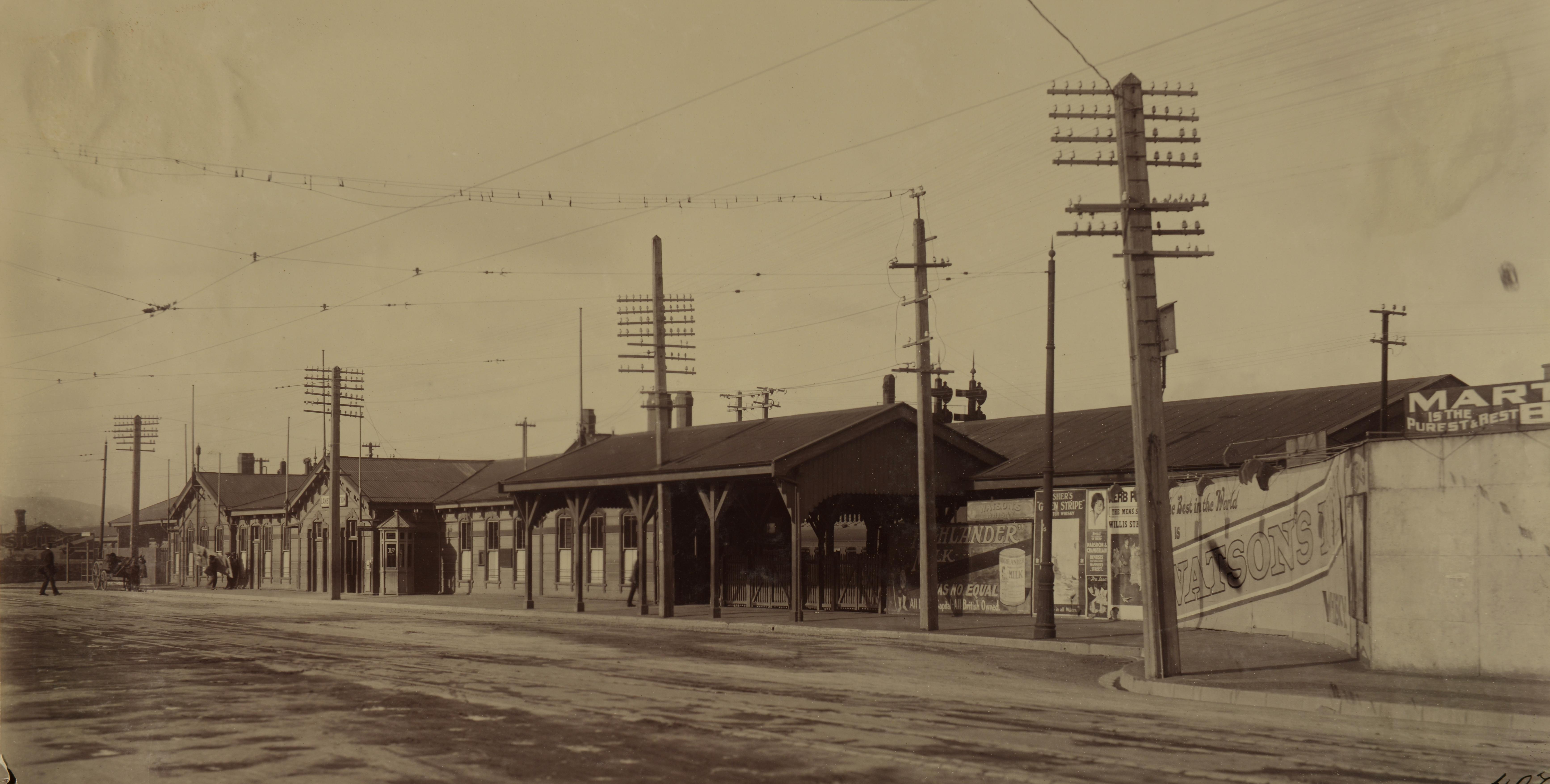 Archives Reference: ABIN W3337 Box 250